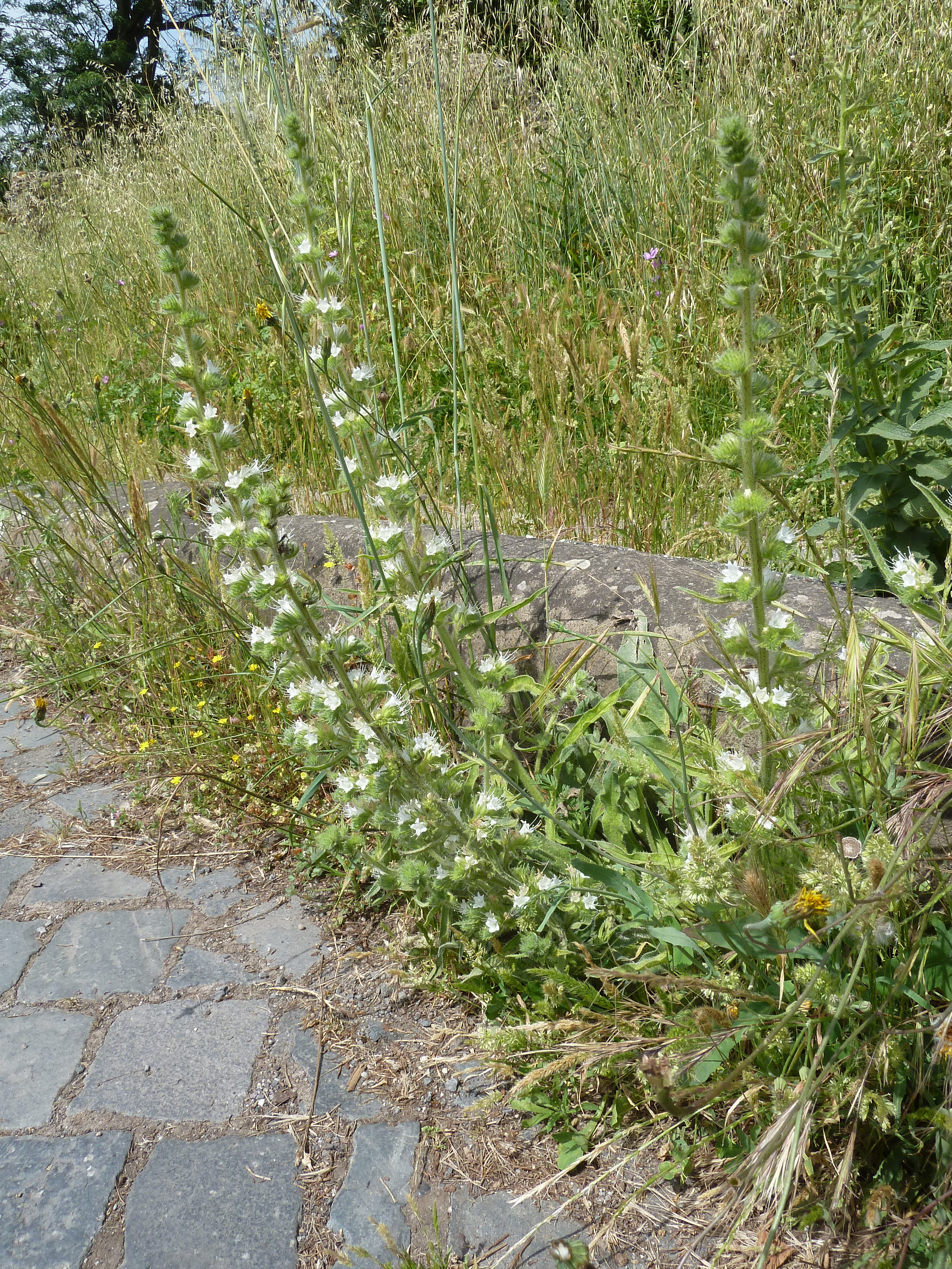 Echium italicum Appia Antica, Rome, Italy June 2013